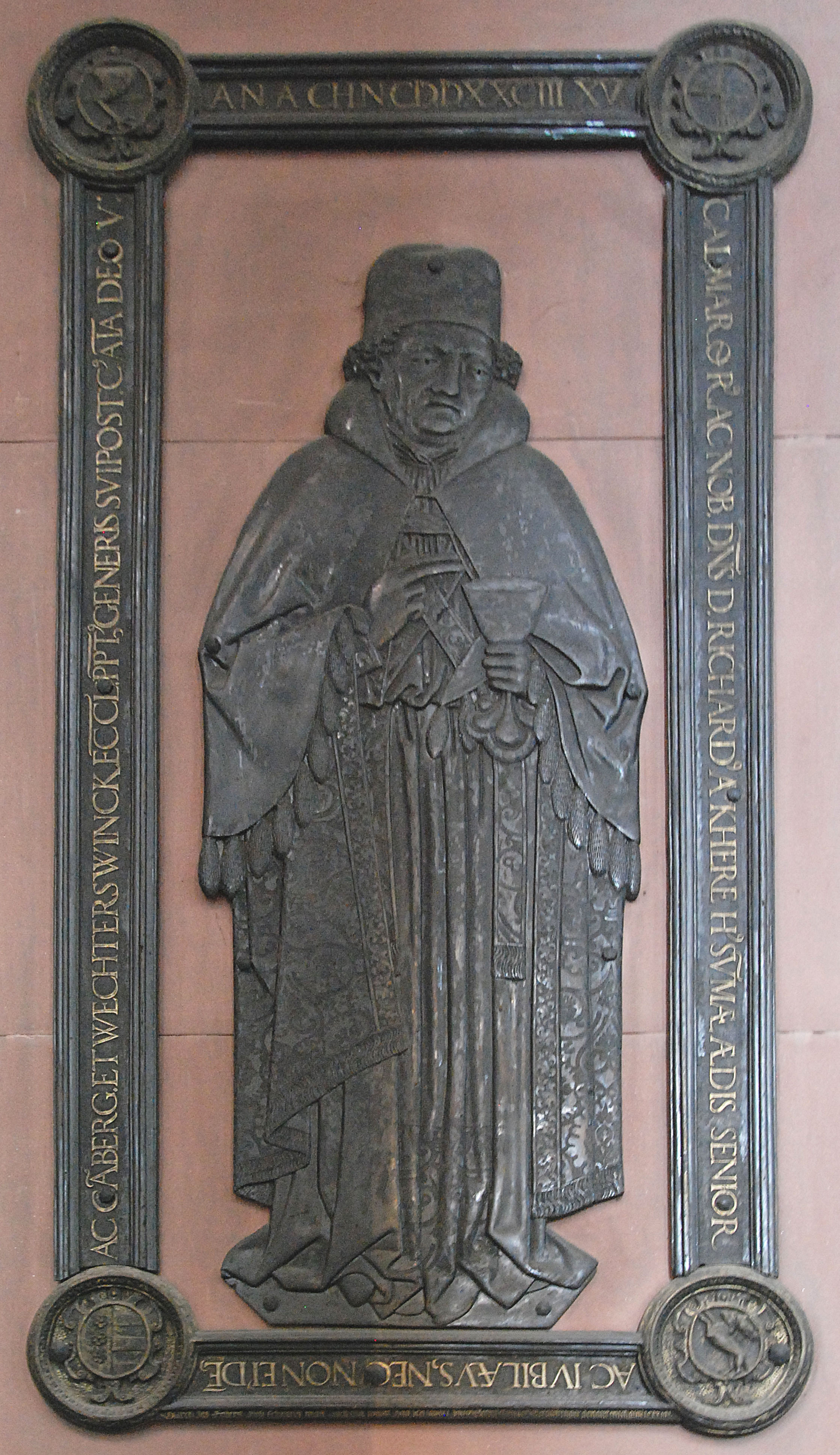 Richard von der Kere 1583 grave plate Wurzburg Dom